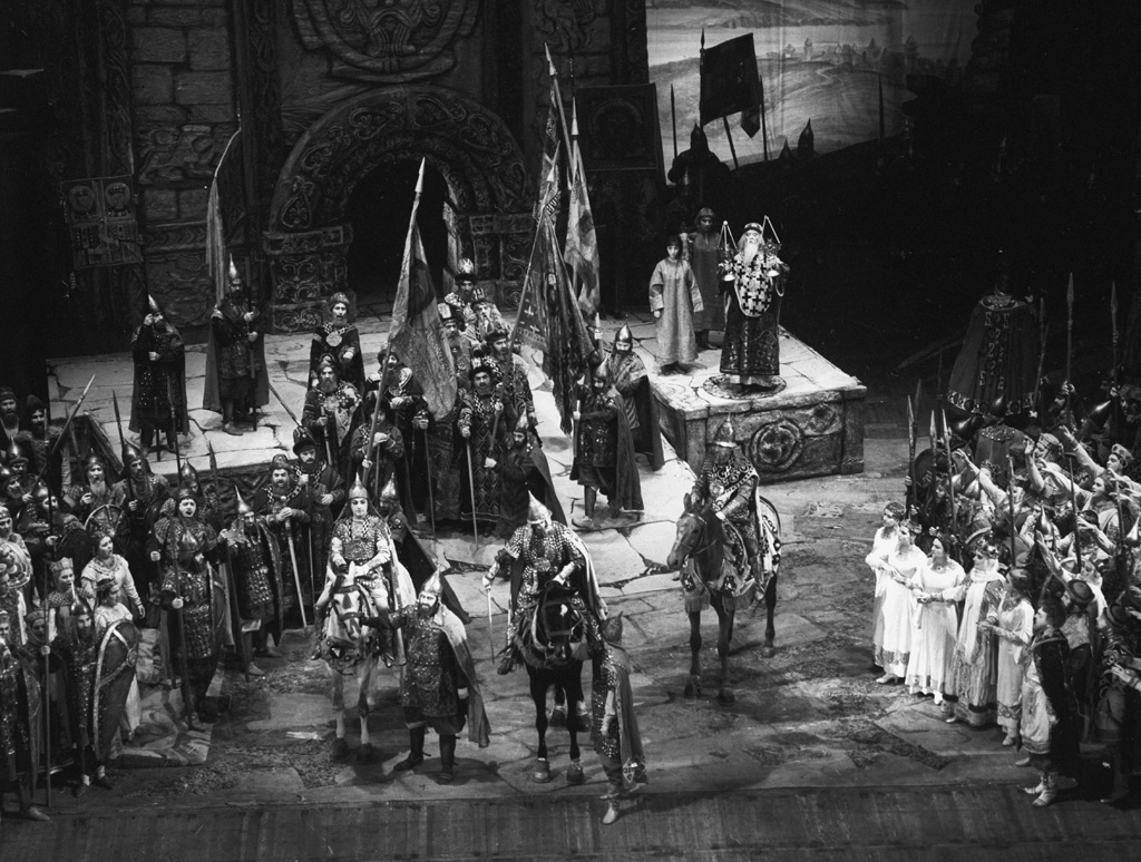 “Scene Prince Igor opera”. Scene from the second act of Alexander Borodin's Prince Igor opera. The State Academic Bolshoi Theater of the Soviet Union.